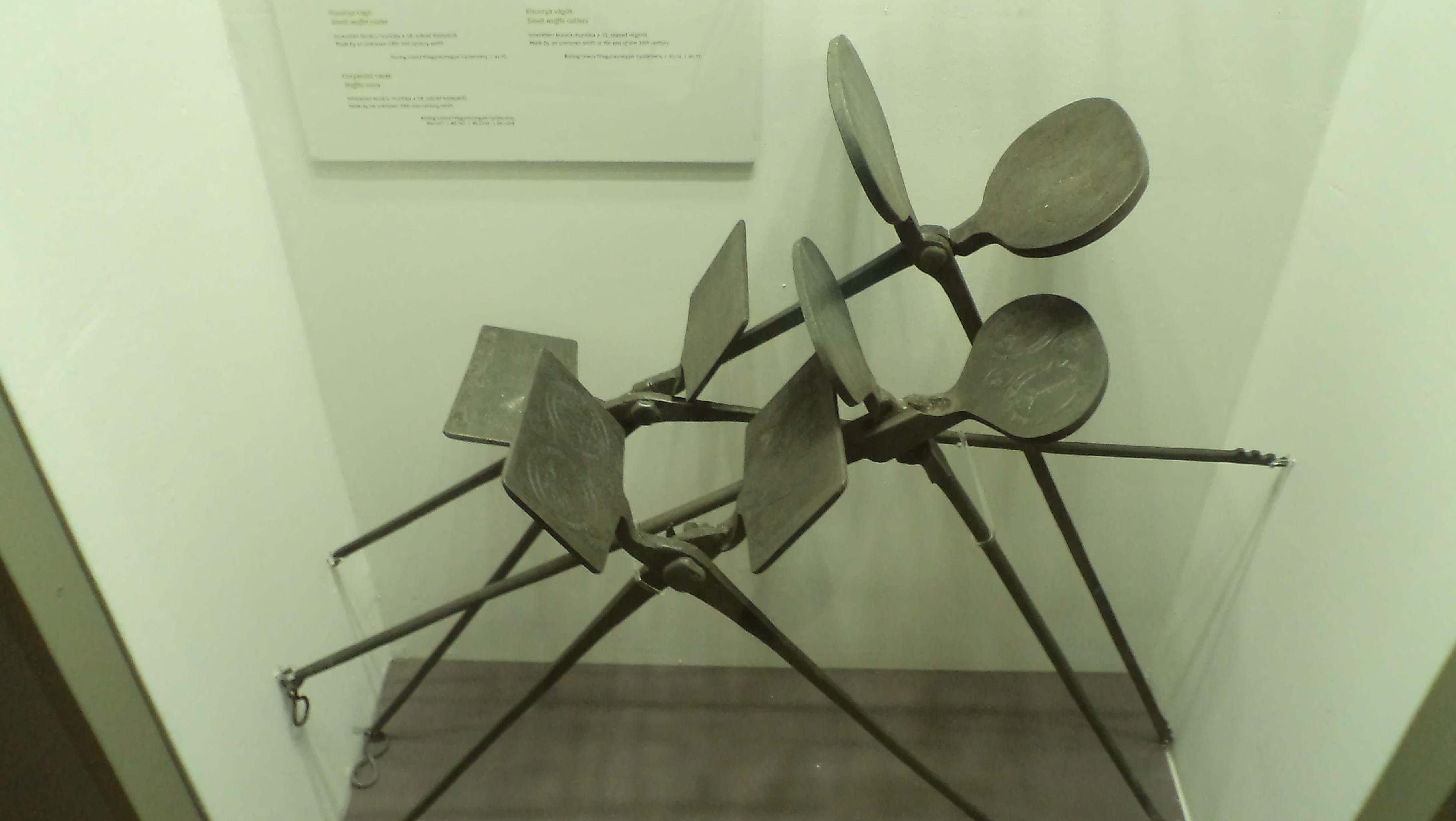 Host presses exhibited in the Szaléziánum, Veszprém, Hungary